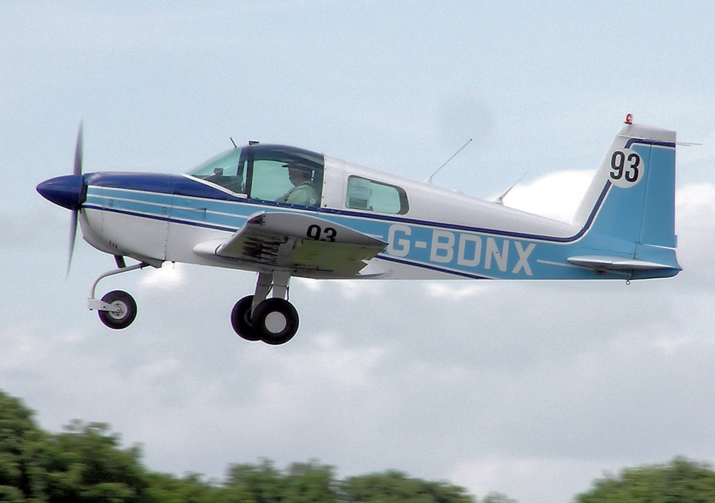 Grumman American Aviation Corporation AA-1B Trainer (UK registration G-BDNX, date of build 1975) at Kemble Airfield, Gloucestershire, England. Photographed by Adrian Pingstone in July 2005 at the PFA Rally and released to the public domain.